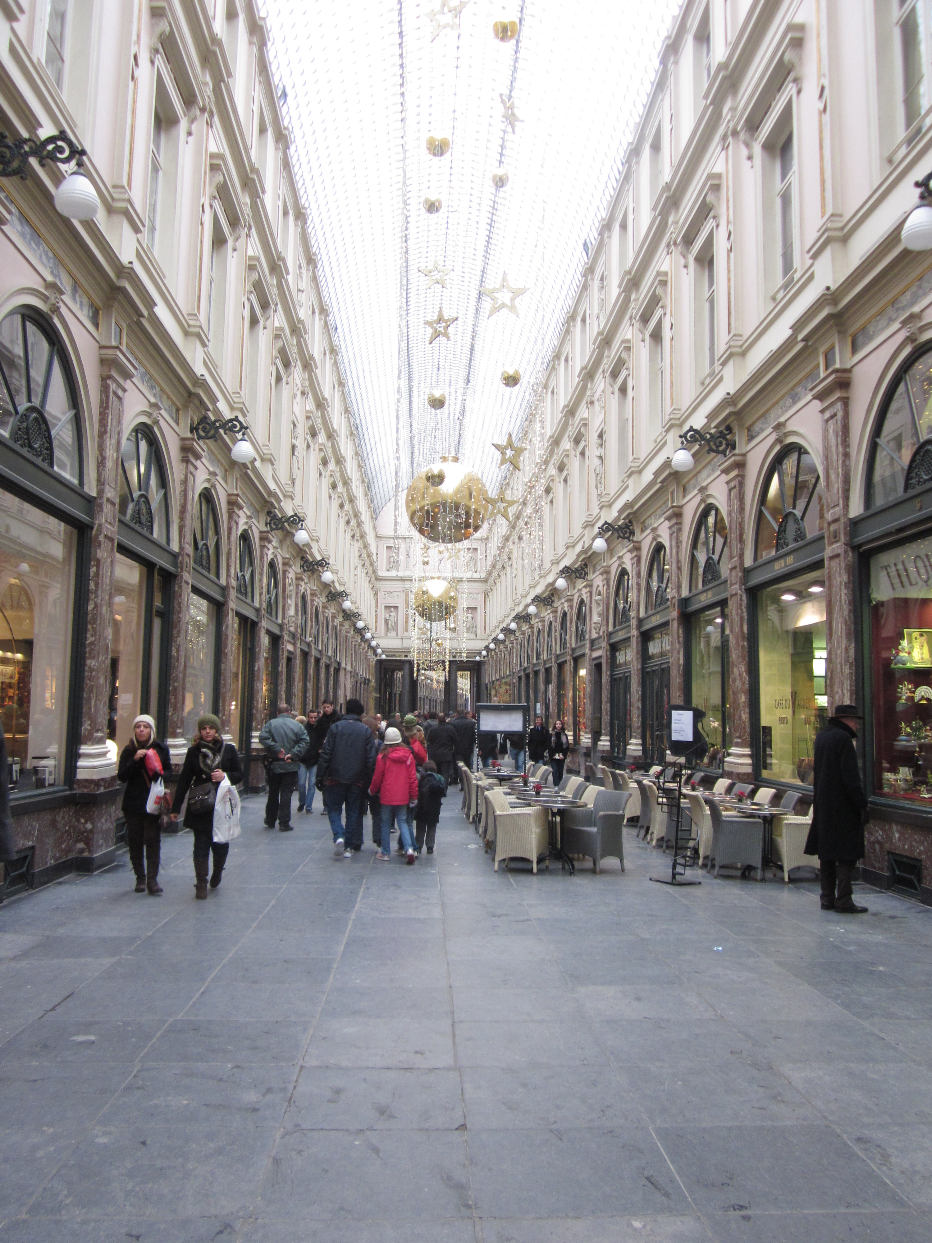 Galeries Royales Saint-Hubert